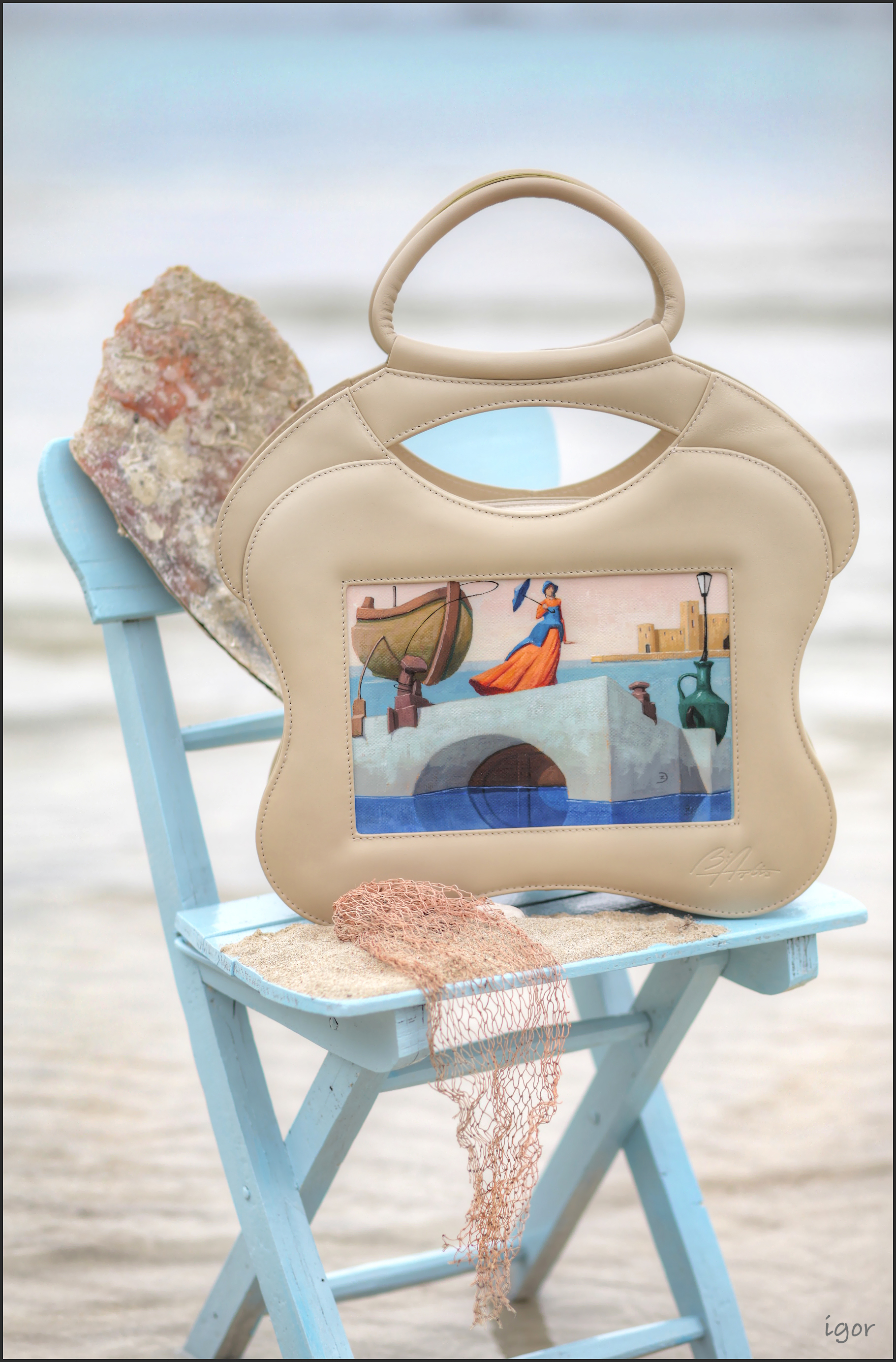 Dalija.